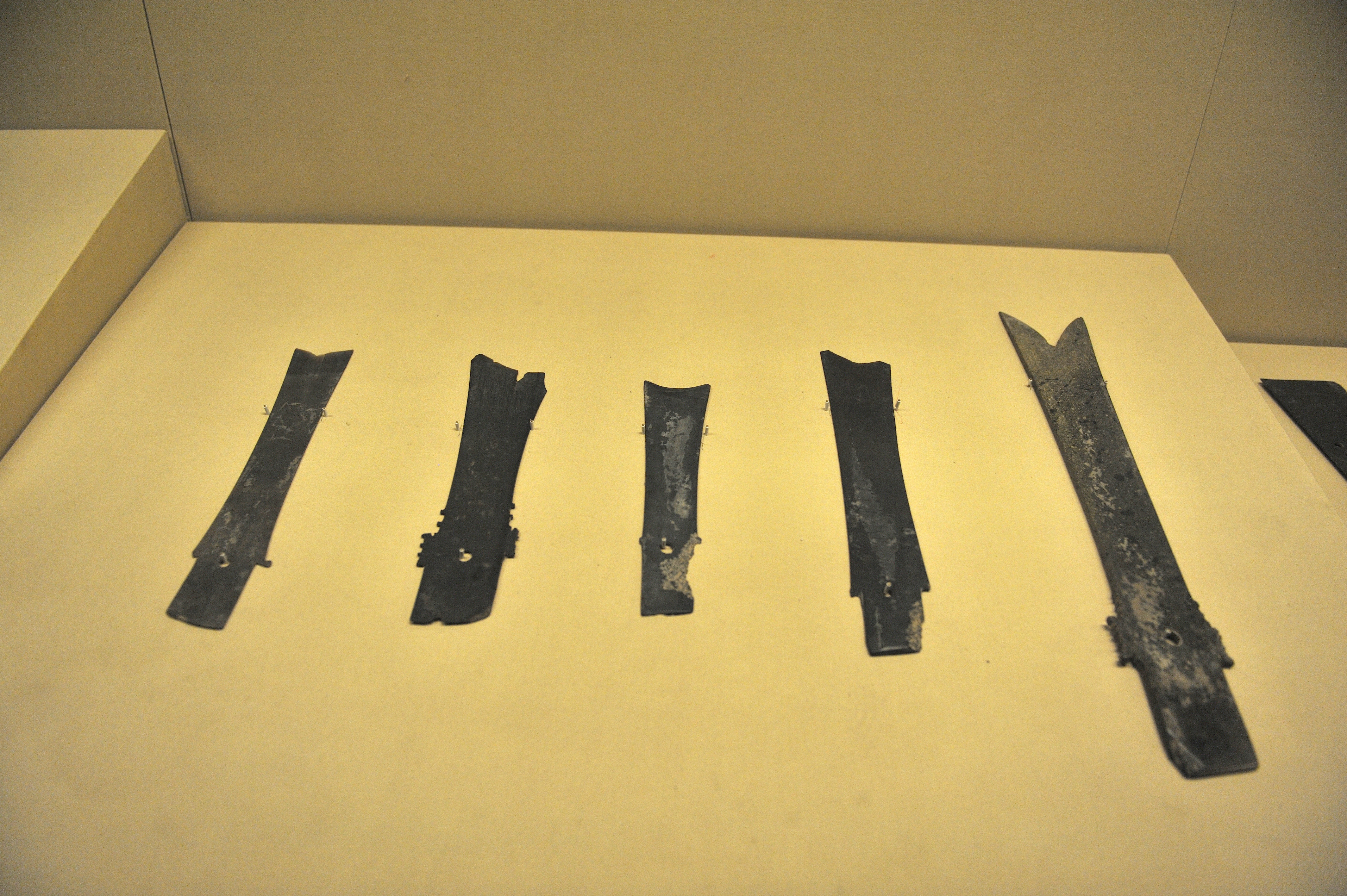 Unearthed jade blades (zhang) at the Shijie site in Shaanxi.